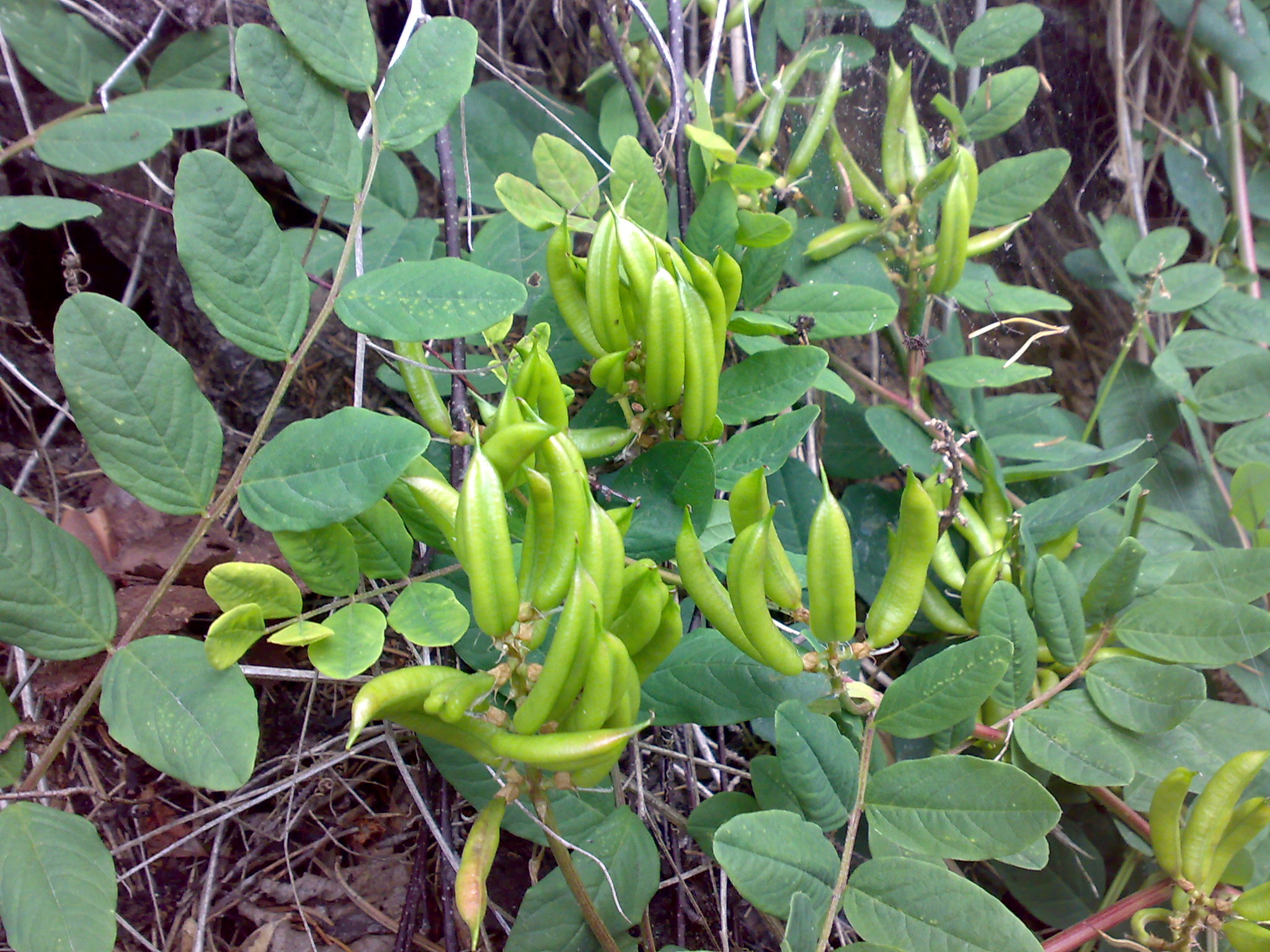 Astragalus glycyphyllos in Hurum, Norway